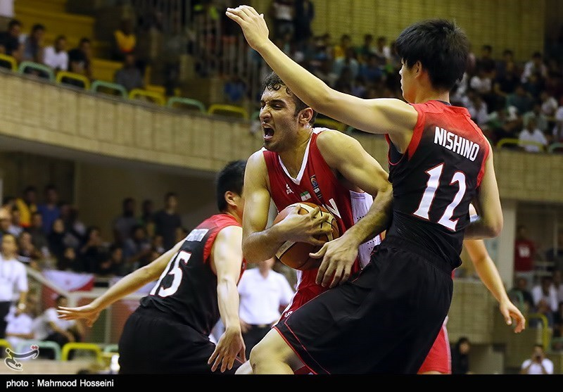 Yo Nishino